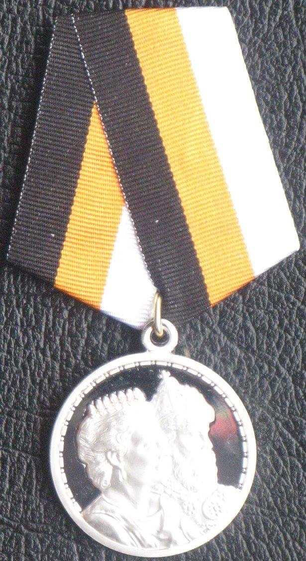 Obverse of the 400th Anniversary Medal of the House of Romanov week instituted in 2013.